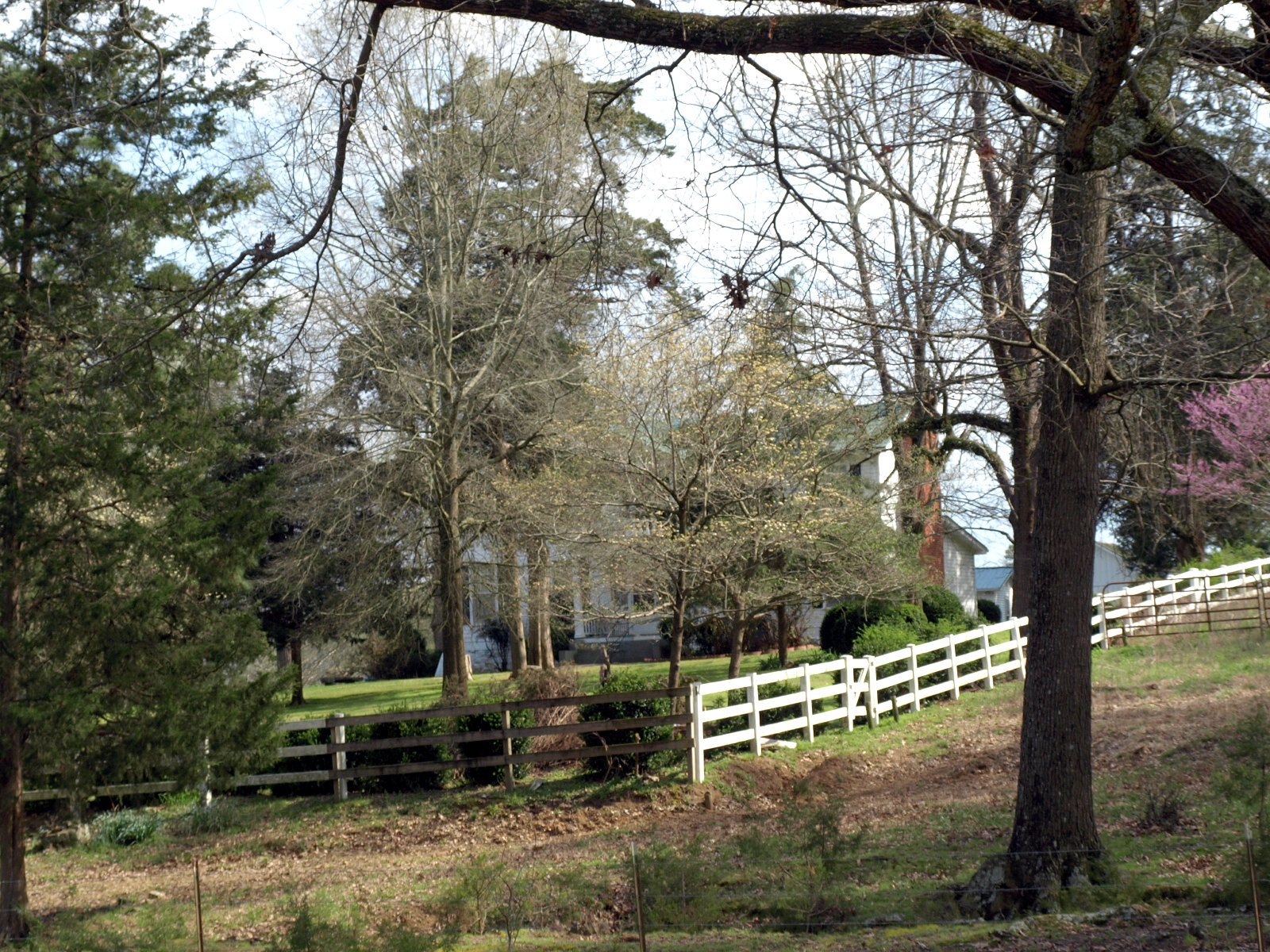 The Robert G. Griffith Sr. House in Blount County, Alabama, listed on the National Register of Historic Places